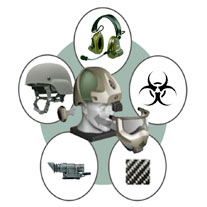 Artist's impression of the Head Gear System and individual components